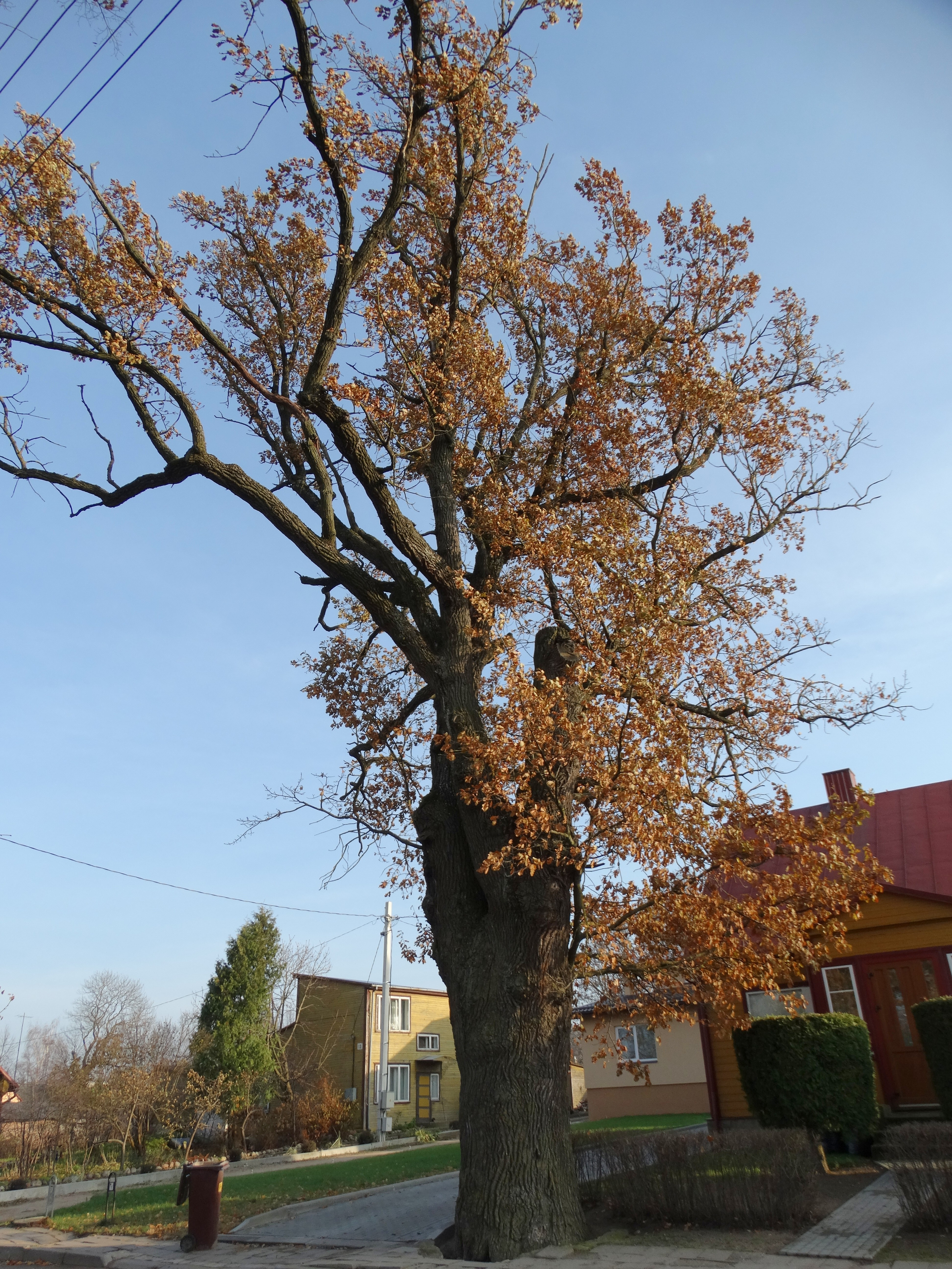 Oak tree in Pasvalys, Lithuania